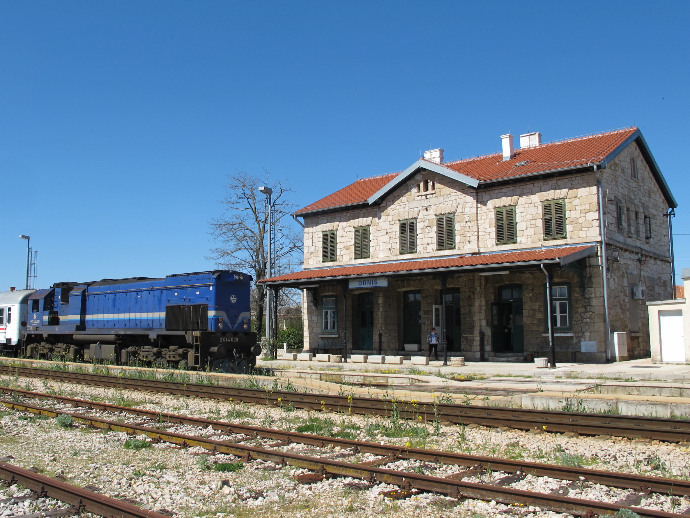 Drniš railway station with 2044 030